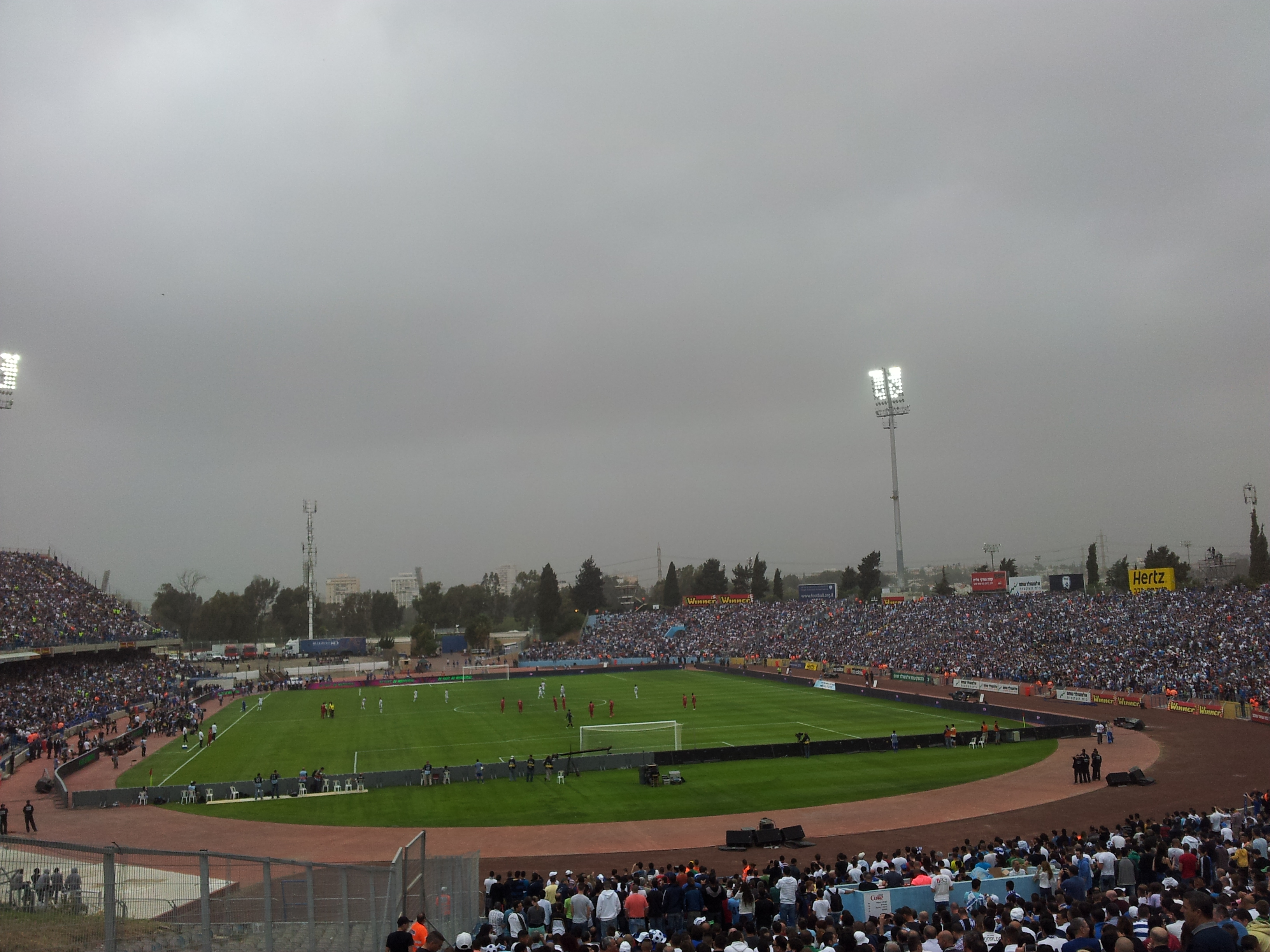 Ramat Gan Stadium